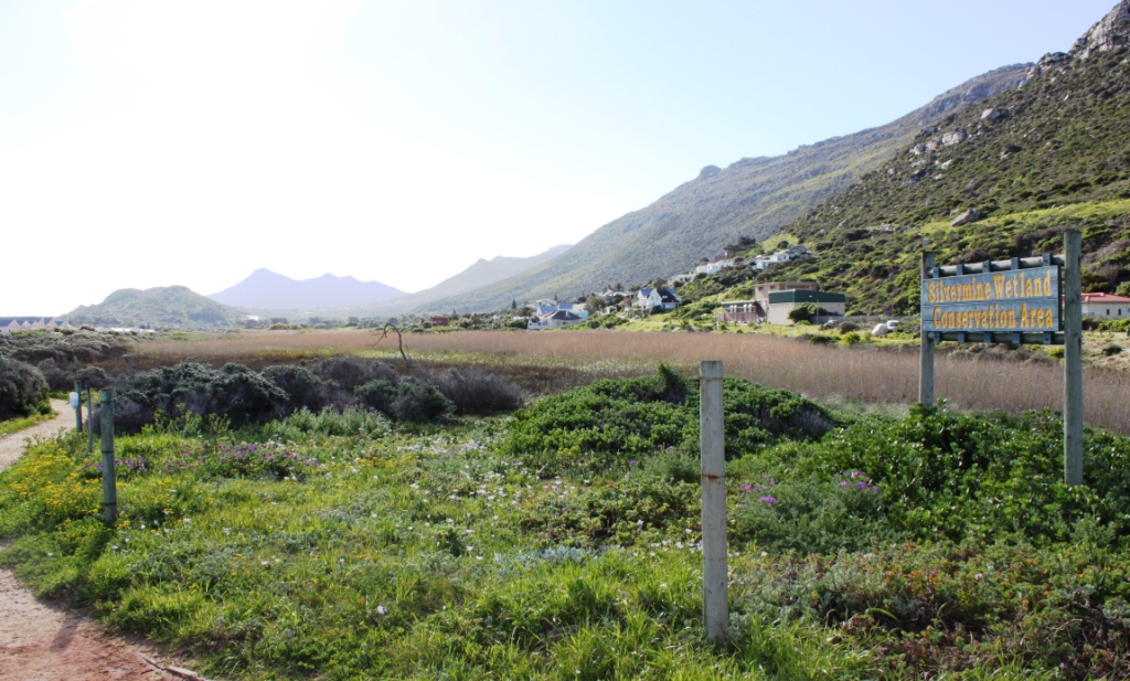 Lower Silvermine River Wetlands - Conservation area in Cape Town. South Africa.